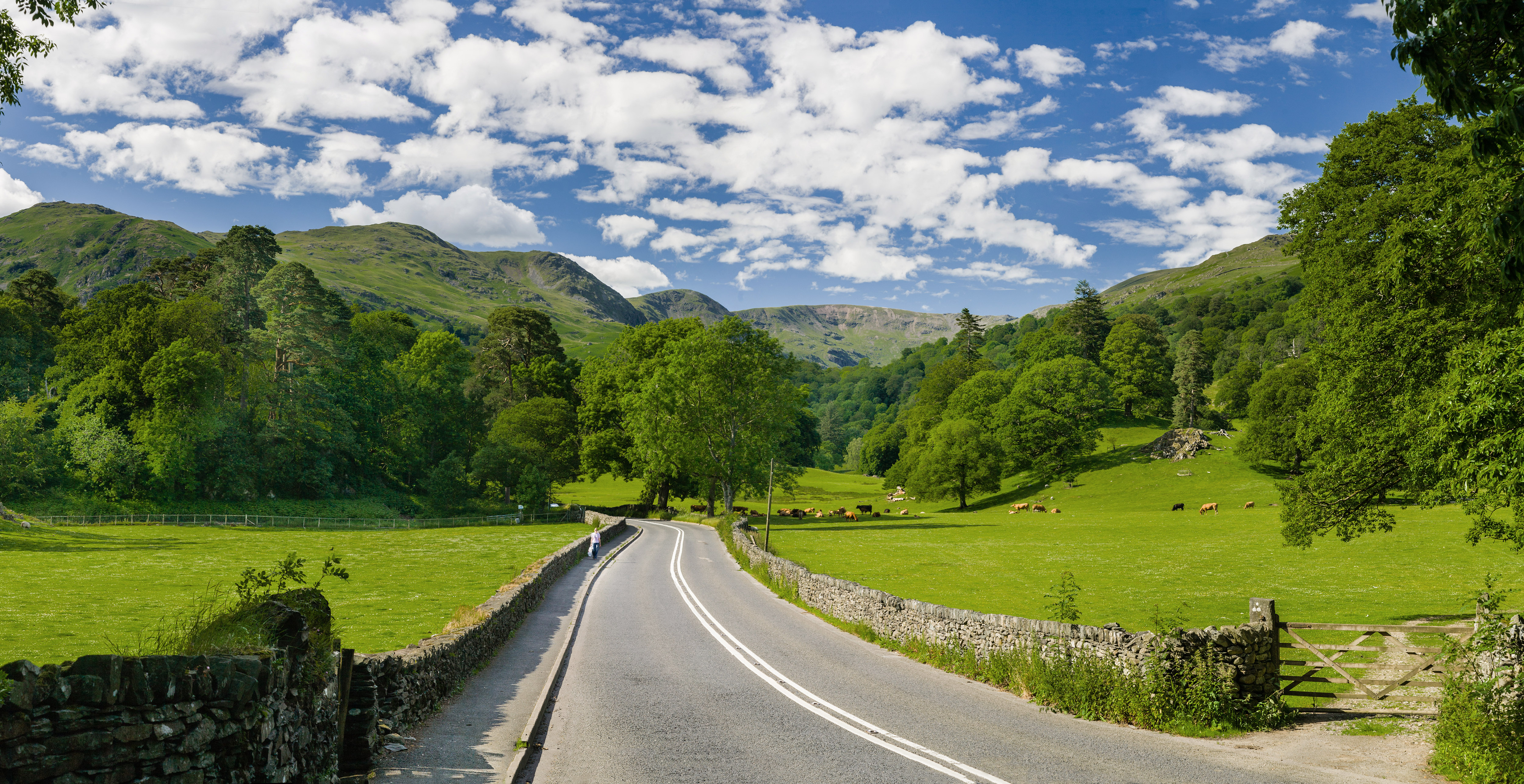 The A591 road as it passes through the countryside between Ambleside and Grasmere in the Lake District, England.